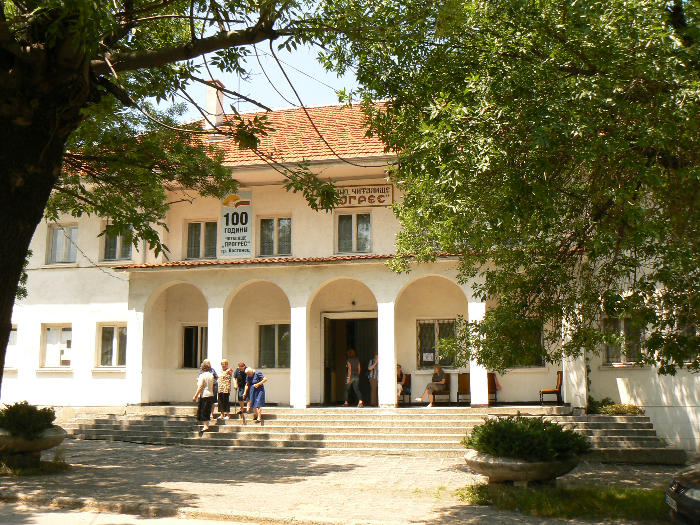 The library of Kostenets, Bulgaria